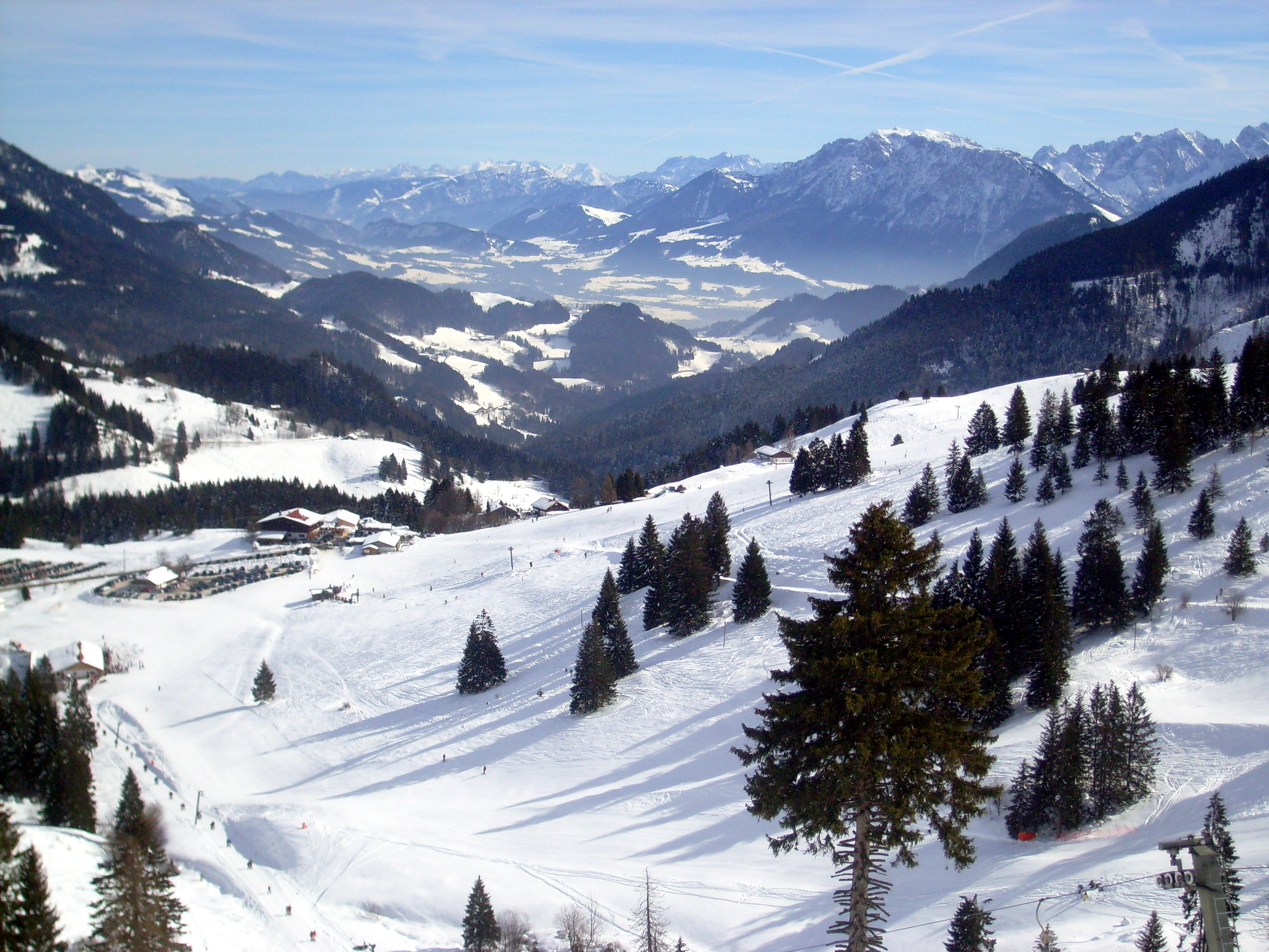 View from the middle Sudelfeld to the Inn valley